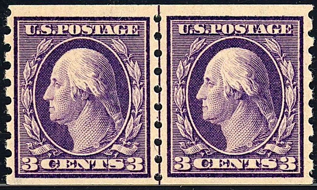 US Postage stamp, George Washington, 1911 issue, 3c, violet